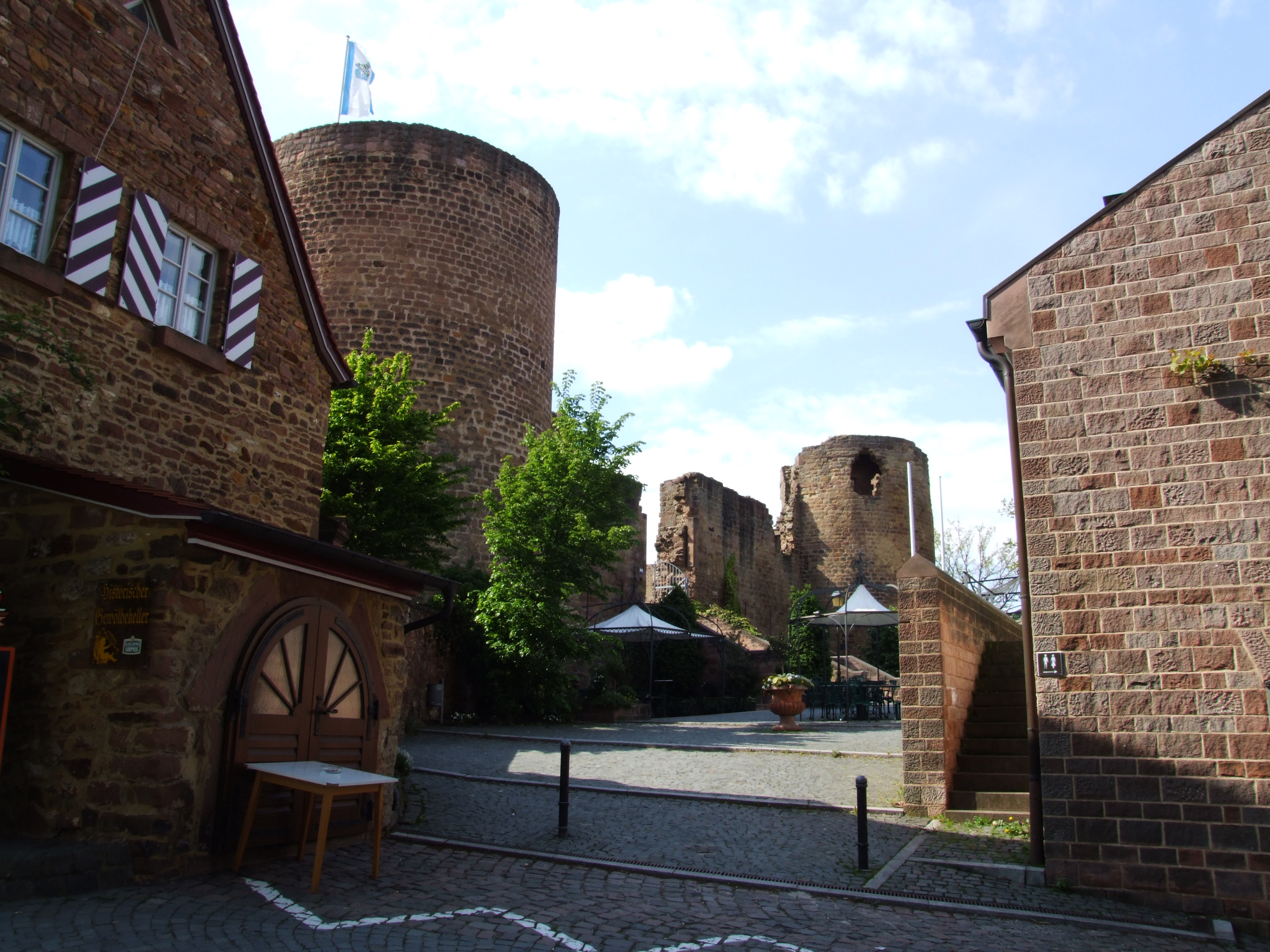 Burg Neuleiningen, eastern courtyard with tavern